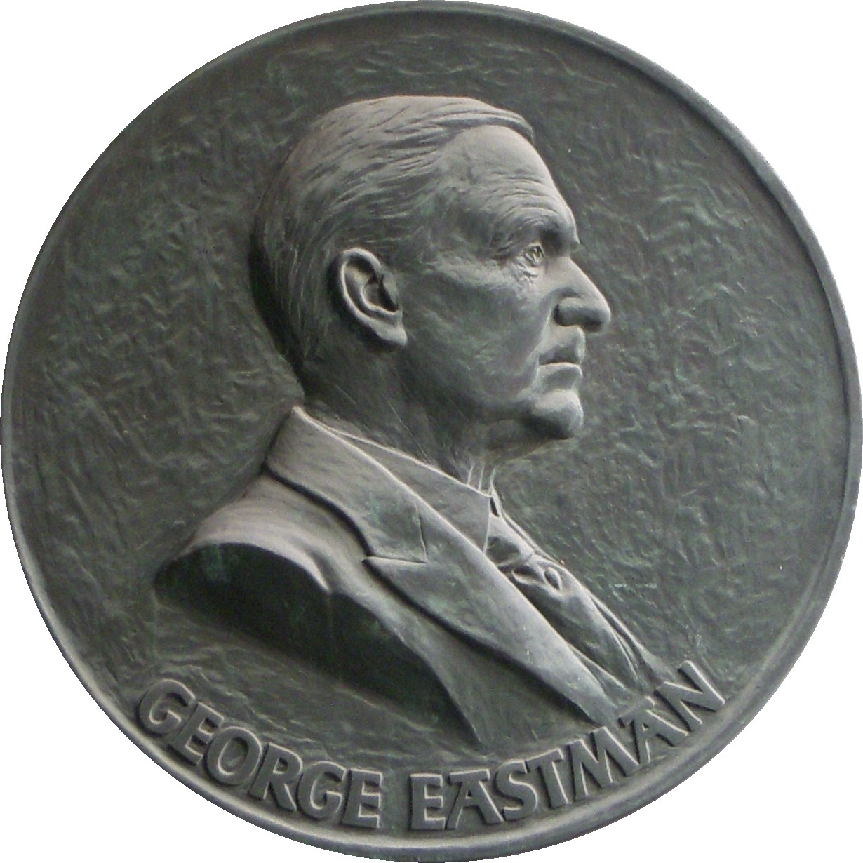 Medallion depicting George Eastman hanging in the entrance hall of Eastmaninstitutet.